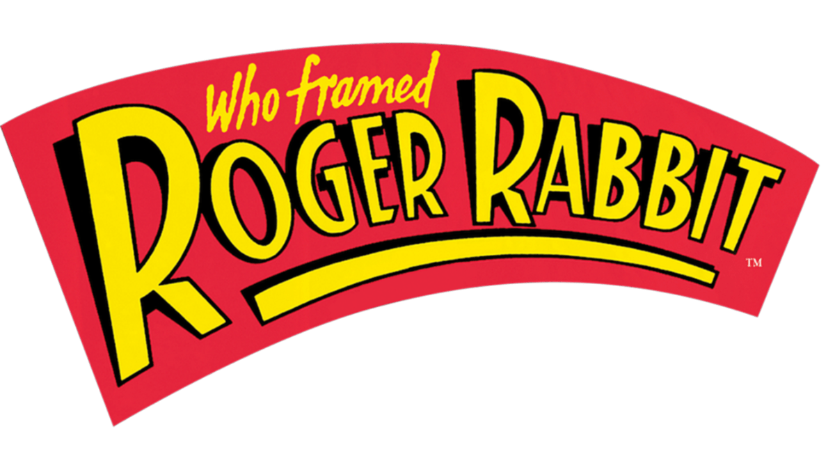 Logo for the feature-length animated/live-action film Who Framed Roger Rabbit.